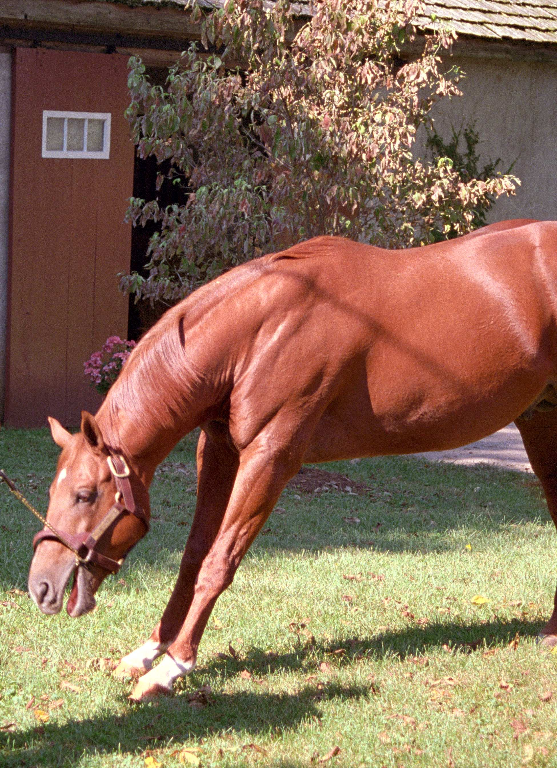 1991 Kentucky Derby winner, Strike the Gold, in retirement.